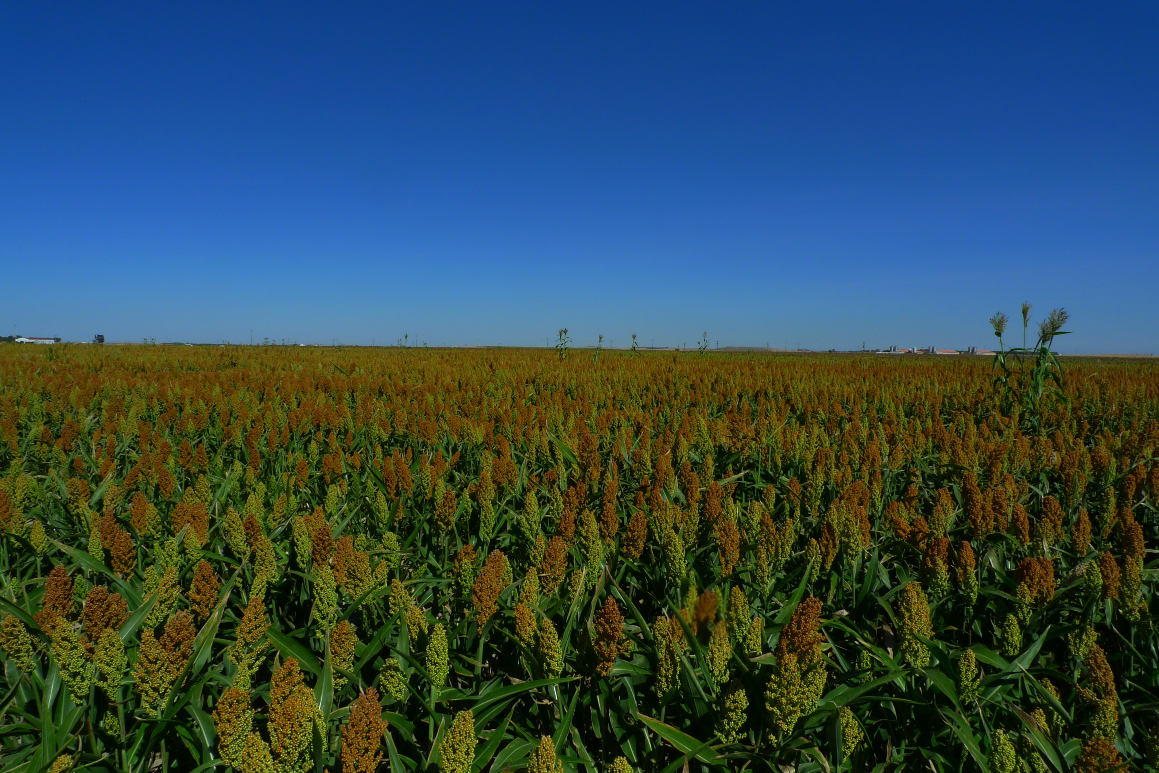 Sorghum in the Adaja irrigation district, Ávila, Spain